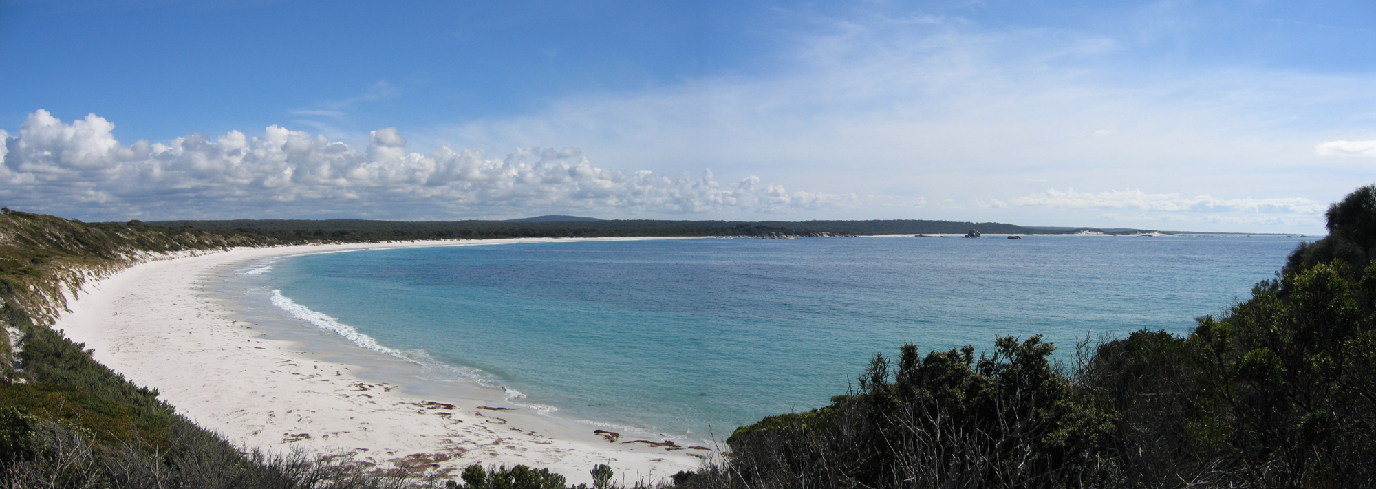 Bay of Fires